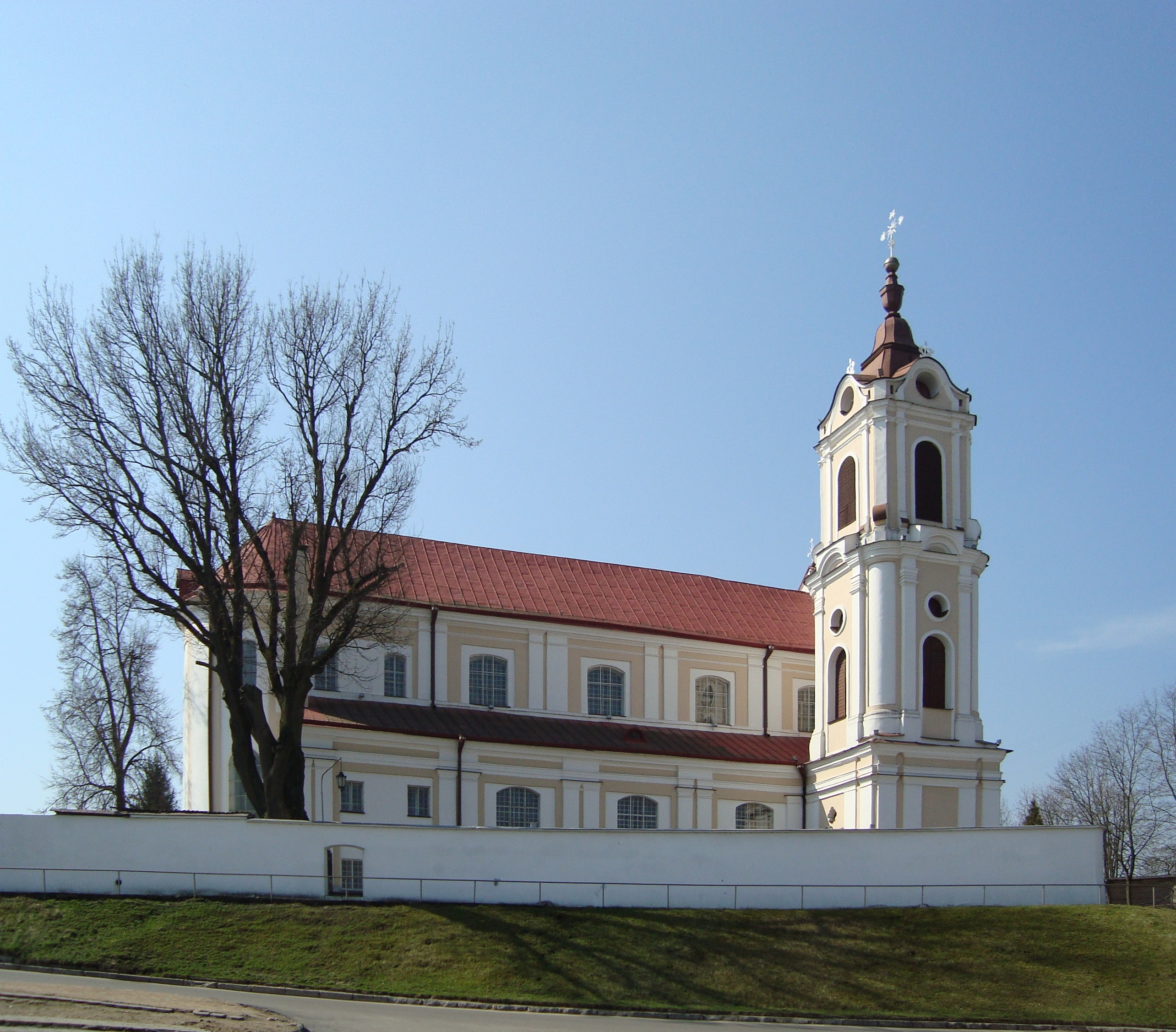 Franciscan church of St. Mary of the Angels in Hrodna